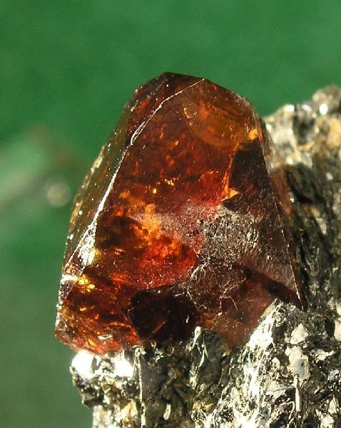 Biotite, Zircon Locality: Seiland Island, Alta, Finnmark, Norway (Locality at ) Size: thumbnail, 2.4 x 1.9 x 1.8 cm Zircon on Biotite A gemmy, very sharp, equant, highly lustrous, 1.4 cm Zircon crystal, well-exposed on biotite schist. This is a classic old locality for the species, and you can see why it is such a classic! The luster, form, and beautiful deep-red color create a gorgeous aesthetic. Specimens of this size, well-exposed and on matrix, are hard to obtain today and I have seen only a few in the last decade or so turn up, from old collections. A fine thumbnail example, here!